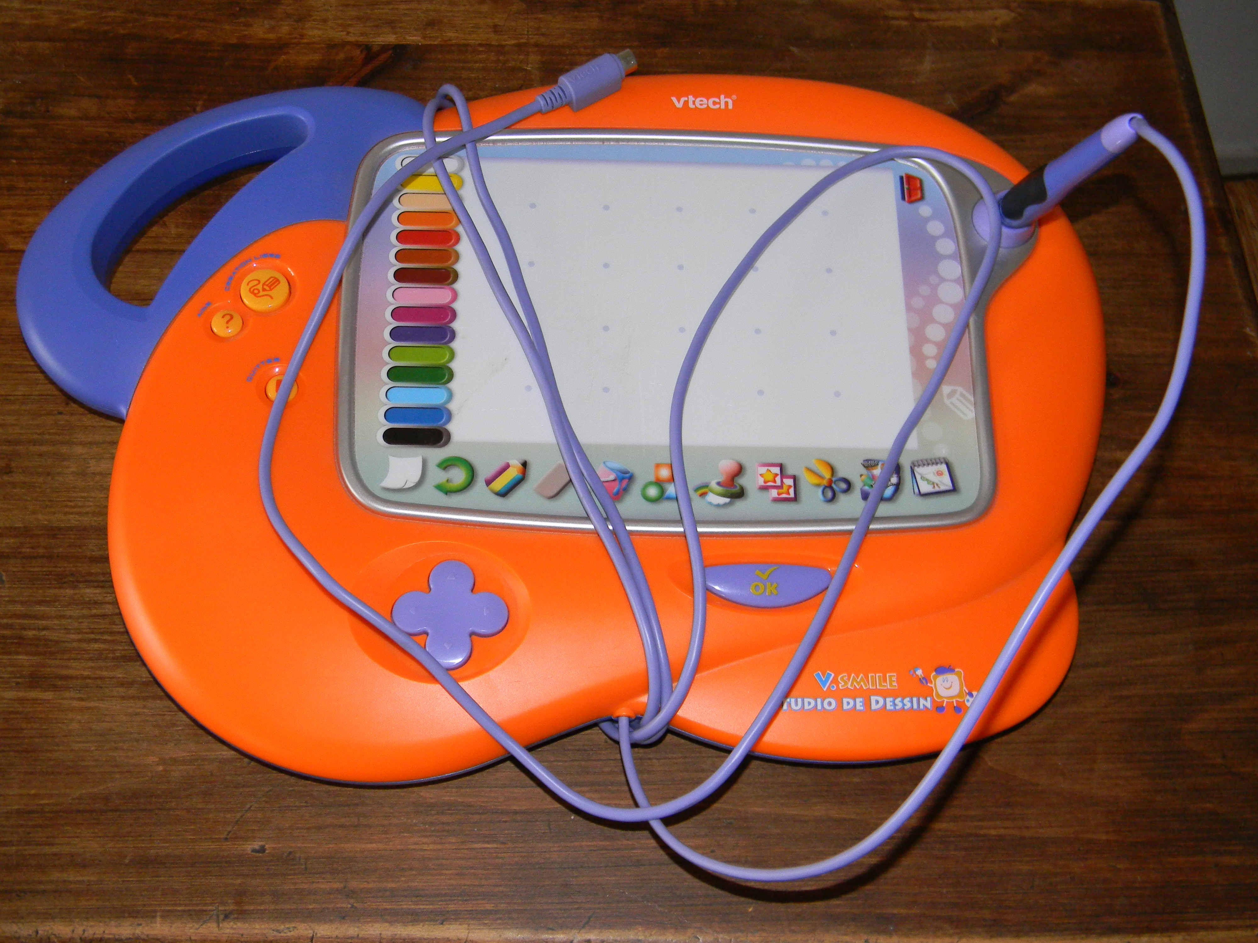 The french version of the drawing pad of a Vtech V.Smile console.